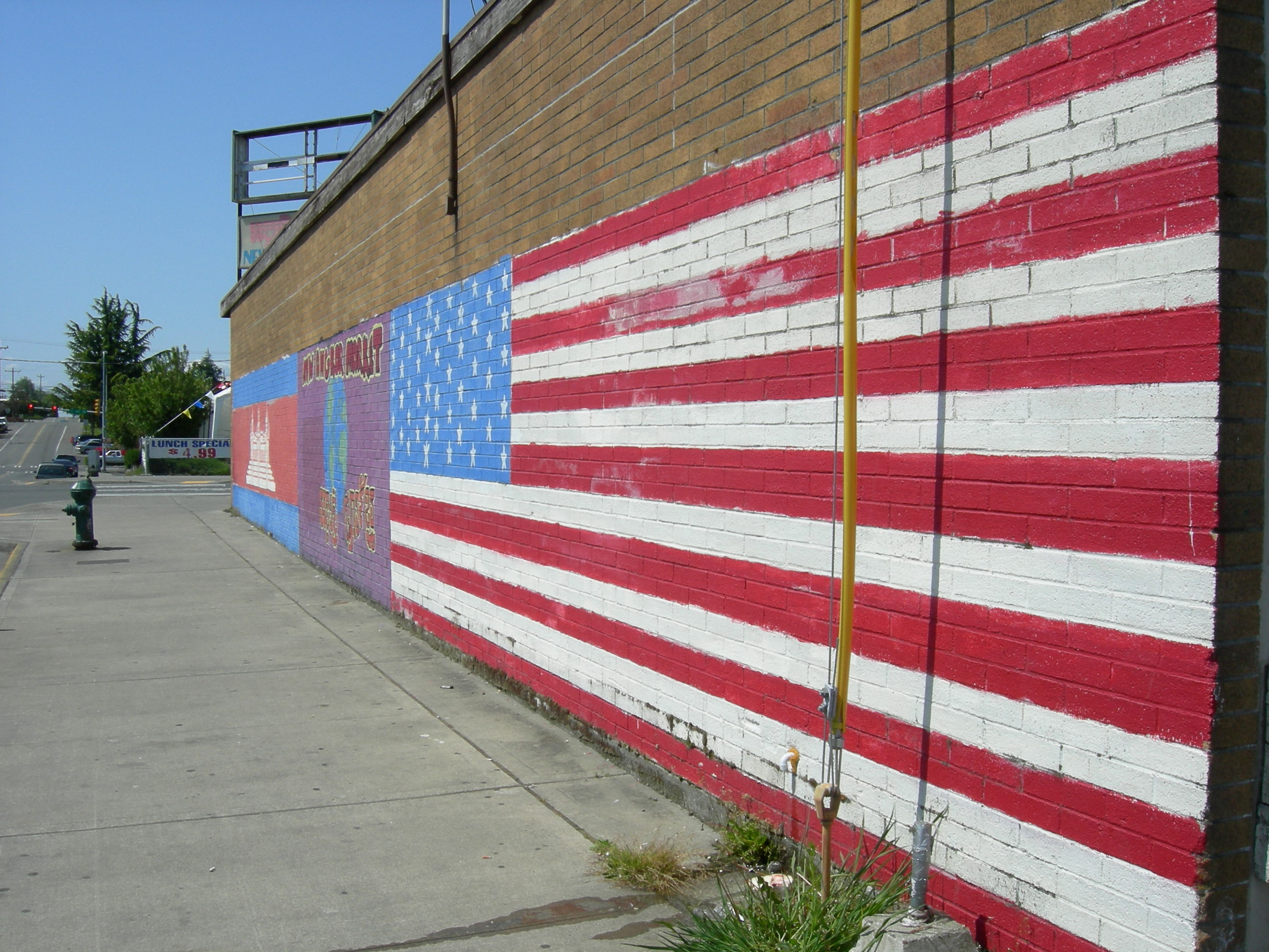 U.S. and Cambodian flags as part of the signage painted on the side of New Angkor Market, White Center, Washington.